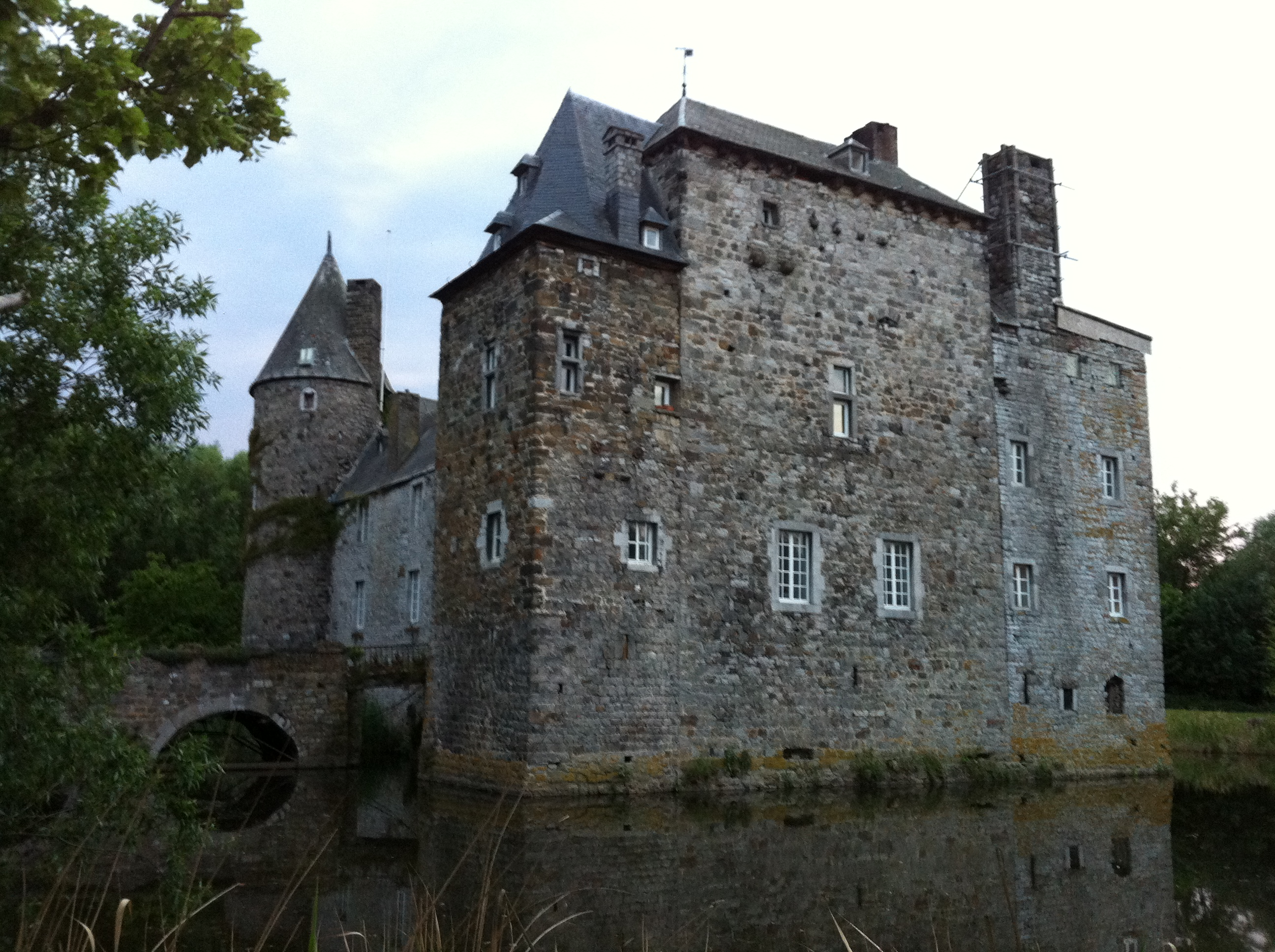 Streversdorp Castle as well know as Graaf Castle located in Montzen, Belgium